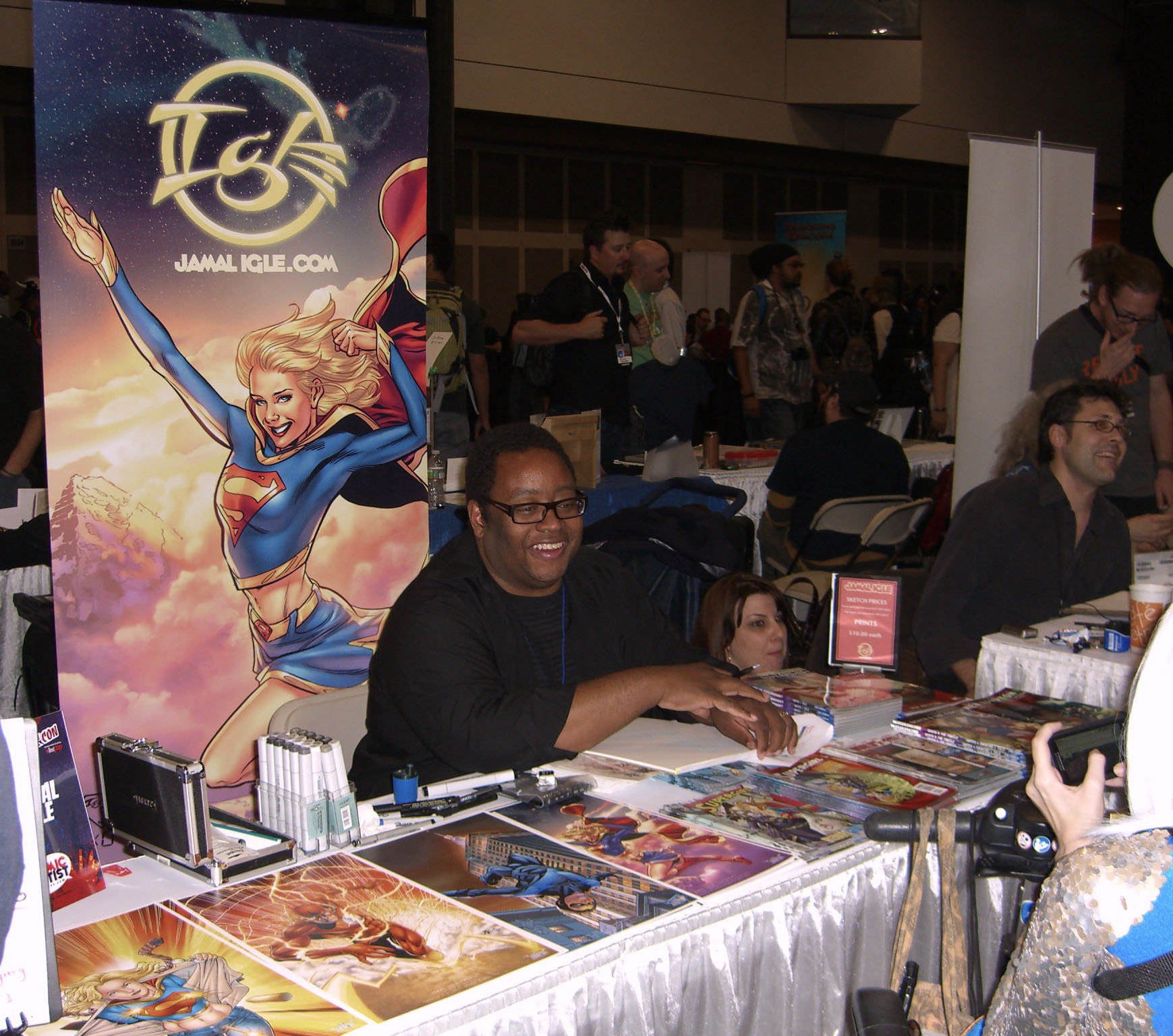 Comic book creators Jamal Igle (center) and Yanick Paquette (far right) at the New York Comic Convention in Manhattan, October 9, 2010. The man sitting at the next table to Igle's left is fellow artist Yanick Paquette. Photo by Luigi Novi. This photo may be used, modified and published for any purpose, only if a easily visible credit to the photographer is placed near the photo in each instance in which it is used. (See licensing information below.) Publication of this photo without this proper attribution constitute copyright infringement. For more information on my photos, you can contact me here.